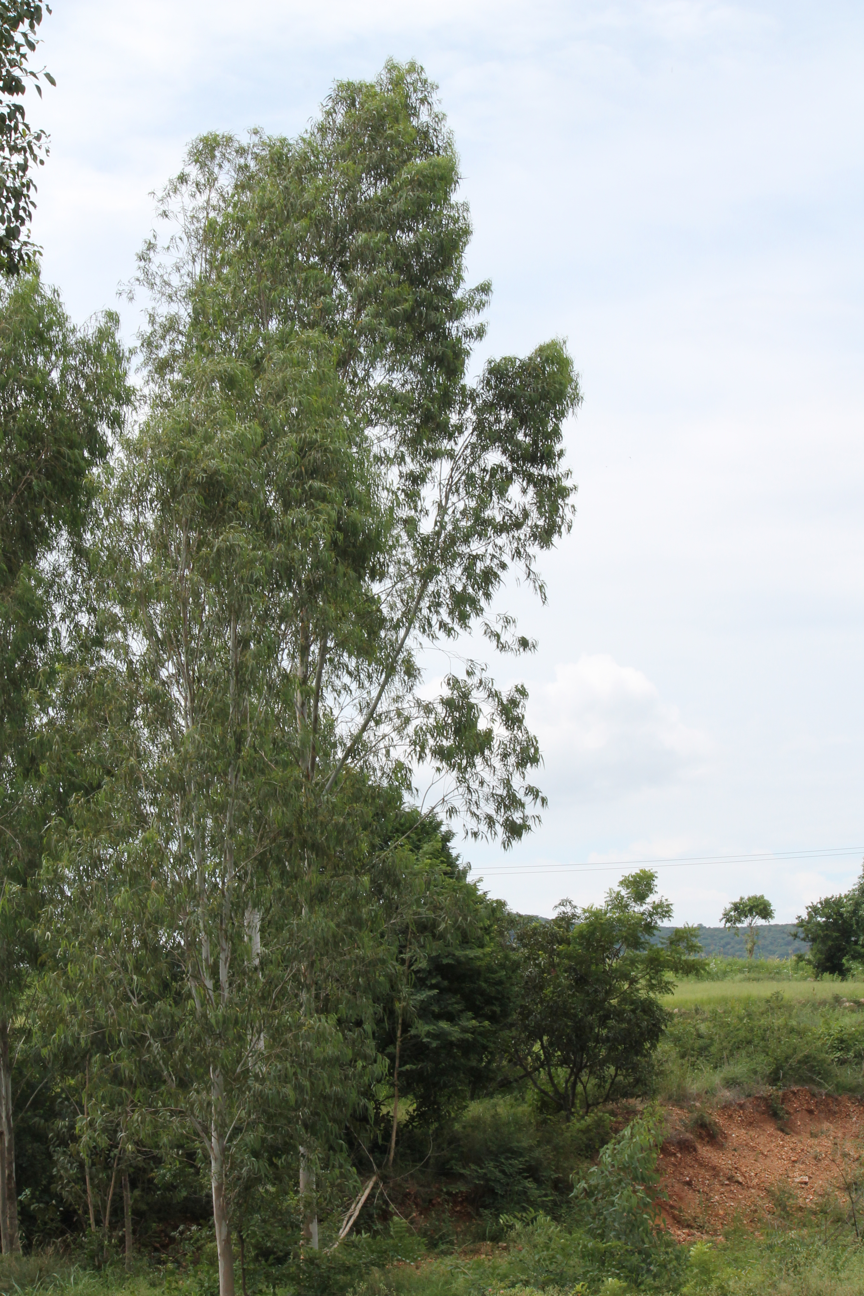 Acacia Tree. Aaroor, Tamil Nadu, India